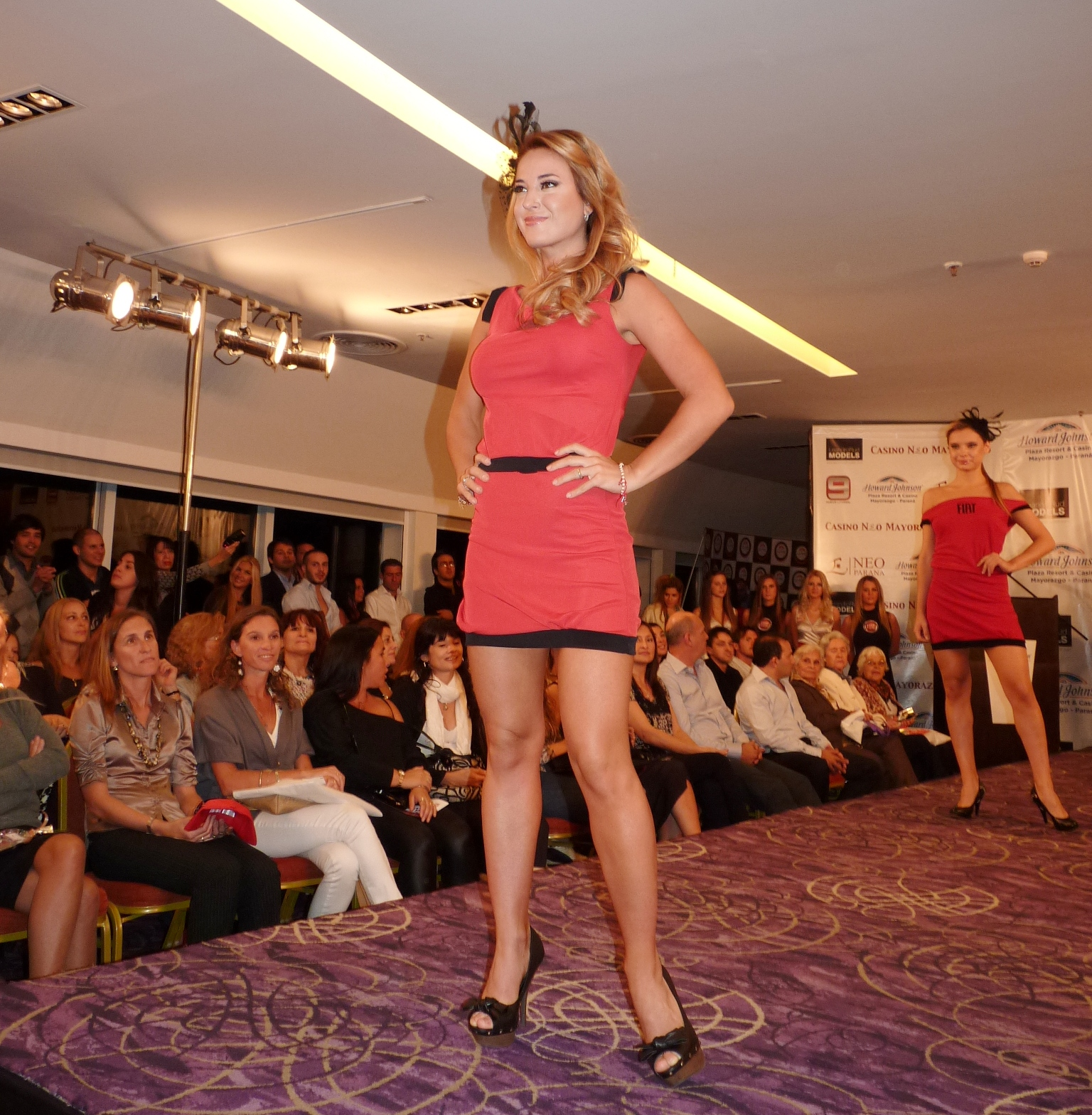 Jesica Cirio on stage in 2011.